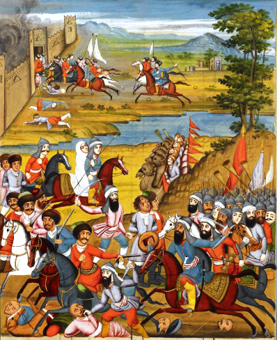 Capture of Tiflis by Agha Muhammad Shah. A Qajar-era miniature from Fath 'Ali Khan Saba's Shahinshah Nama. The British Library.